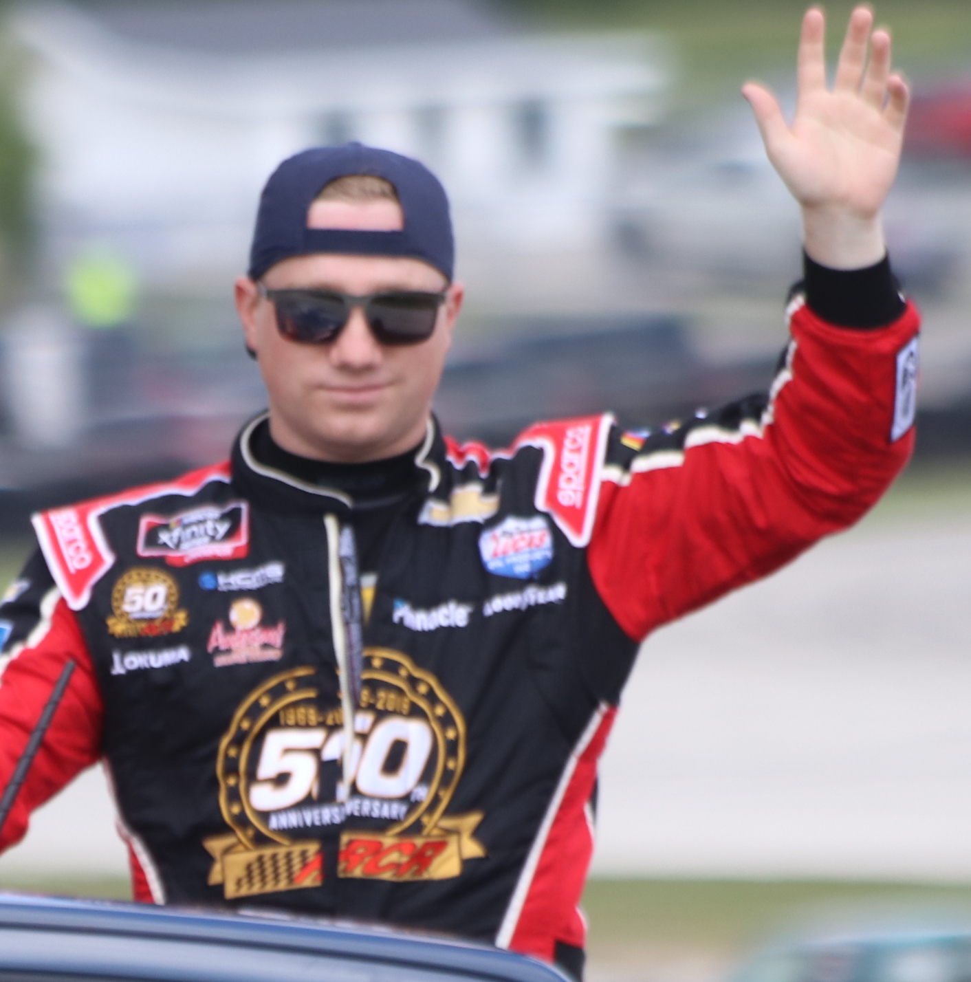 NASCAR driver Tyler Reddick at the 2019 CTECH 180, Road America